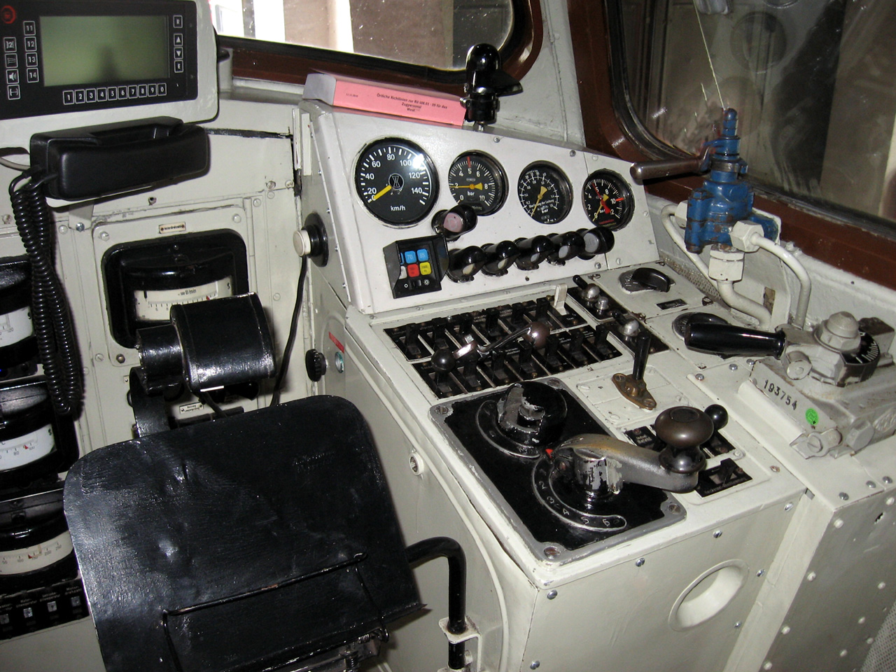 Driver's cab of Deutsche Bundesbahn class V 200.0 diesel locomotive